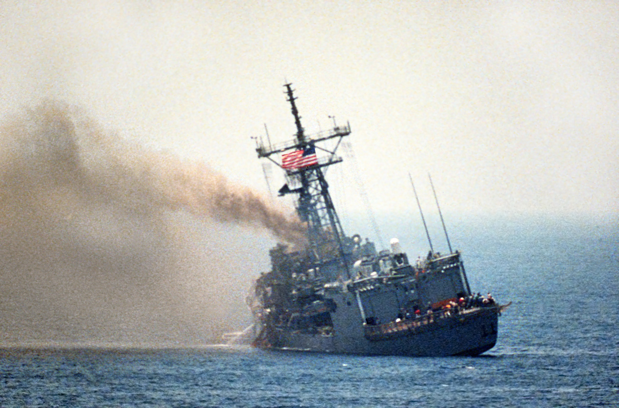 A port quarter view of the guided missile frigate USS STARK (FFG-31) listing to port after being struck by an Iraqi-launched Exocet missile on the 17th of May 1987.